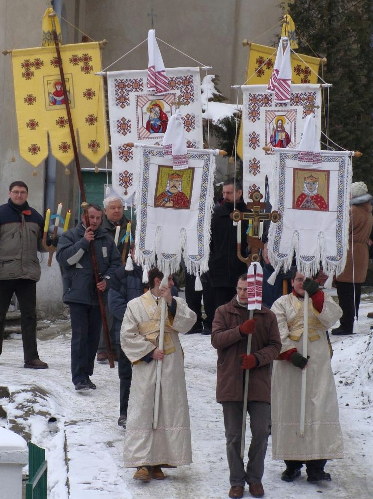 The_deacons_follow_the_procession_to_San_River. Sanok.